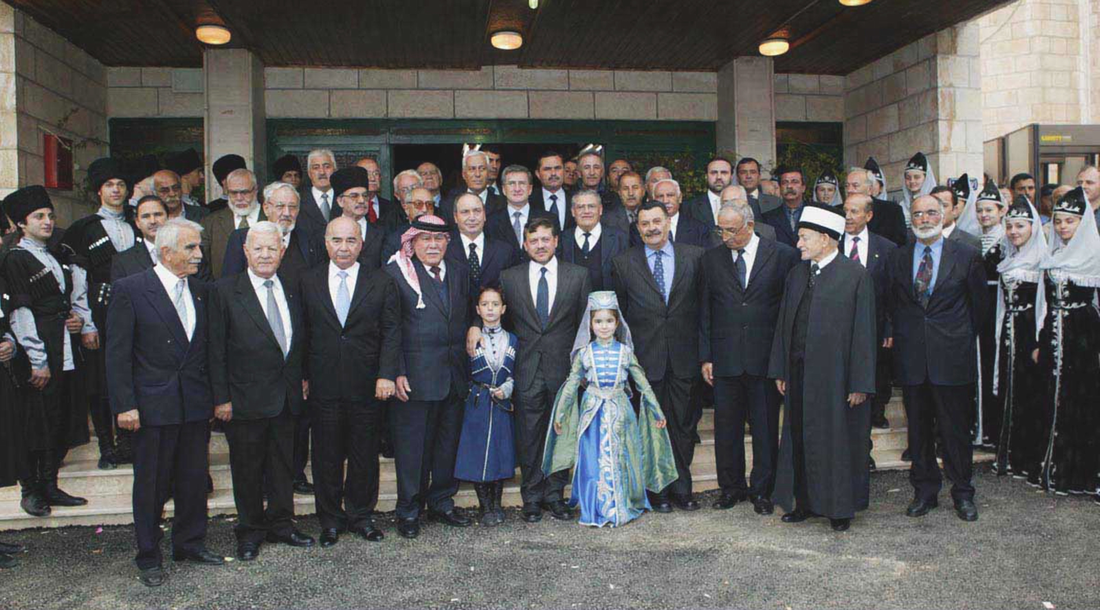 King Visiting the Circassian Tribal Council at the Circassian Welfair Society in Amman - Jordan الجمعية الخيرية الشركسية في الأردن and there is commentary related to it.